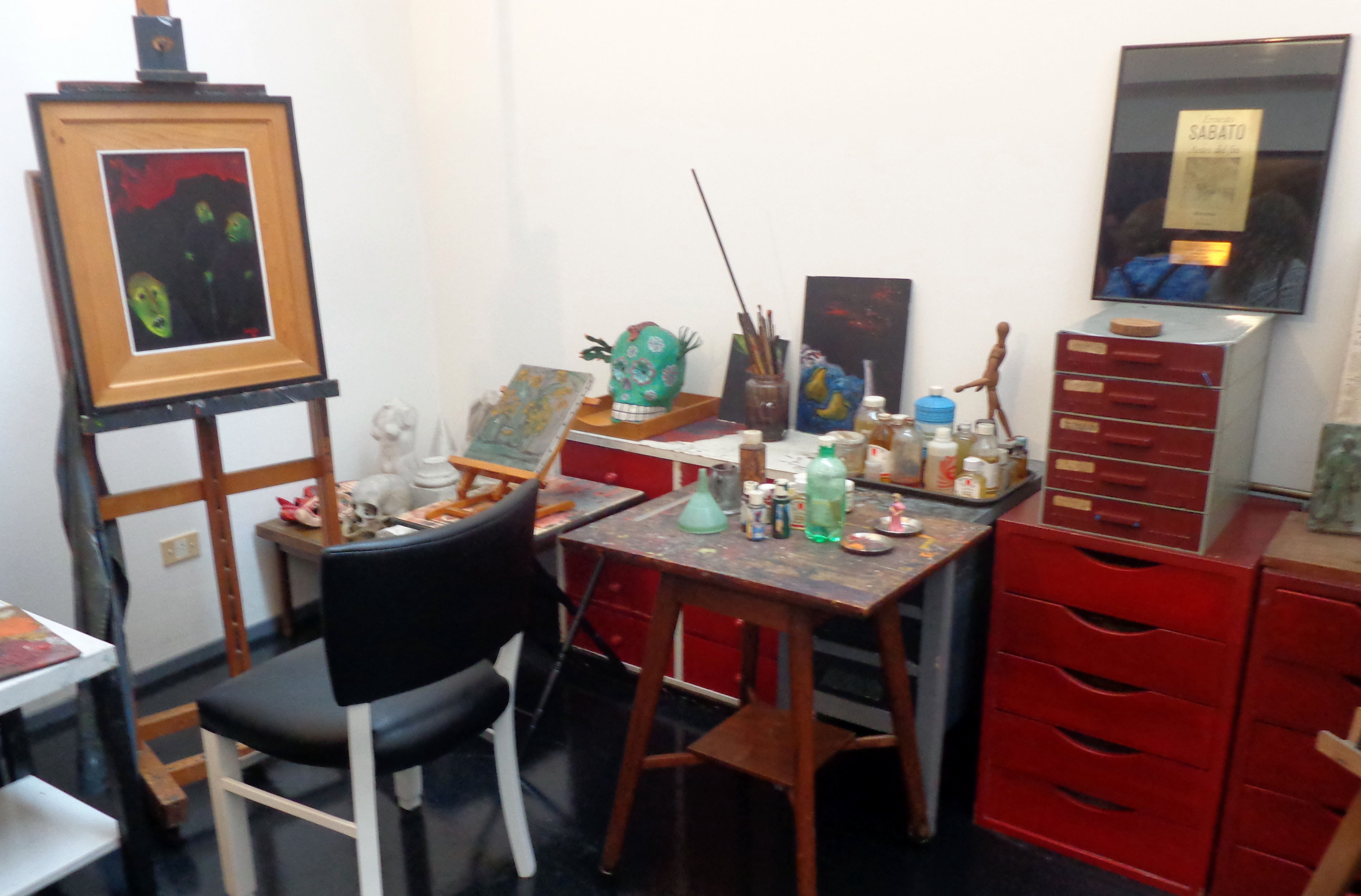 House where the writer Ernesto Sabato lived, current museum. In Saverio Langeri 3135, Santos Lugares, Buenos Aires Province, Argentina.